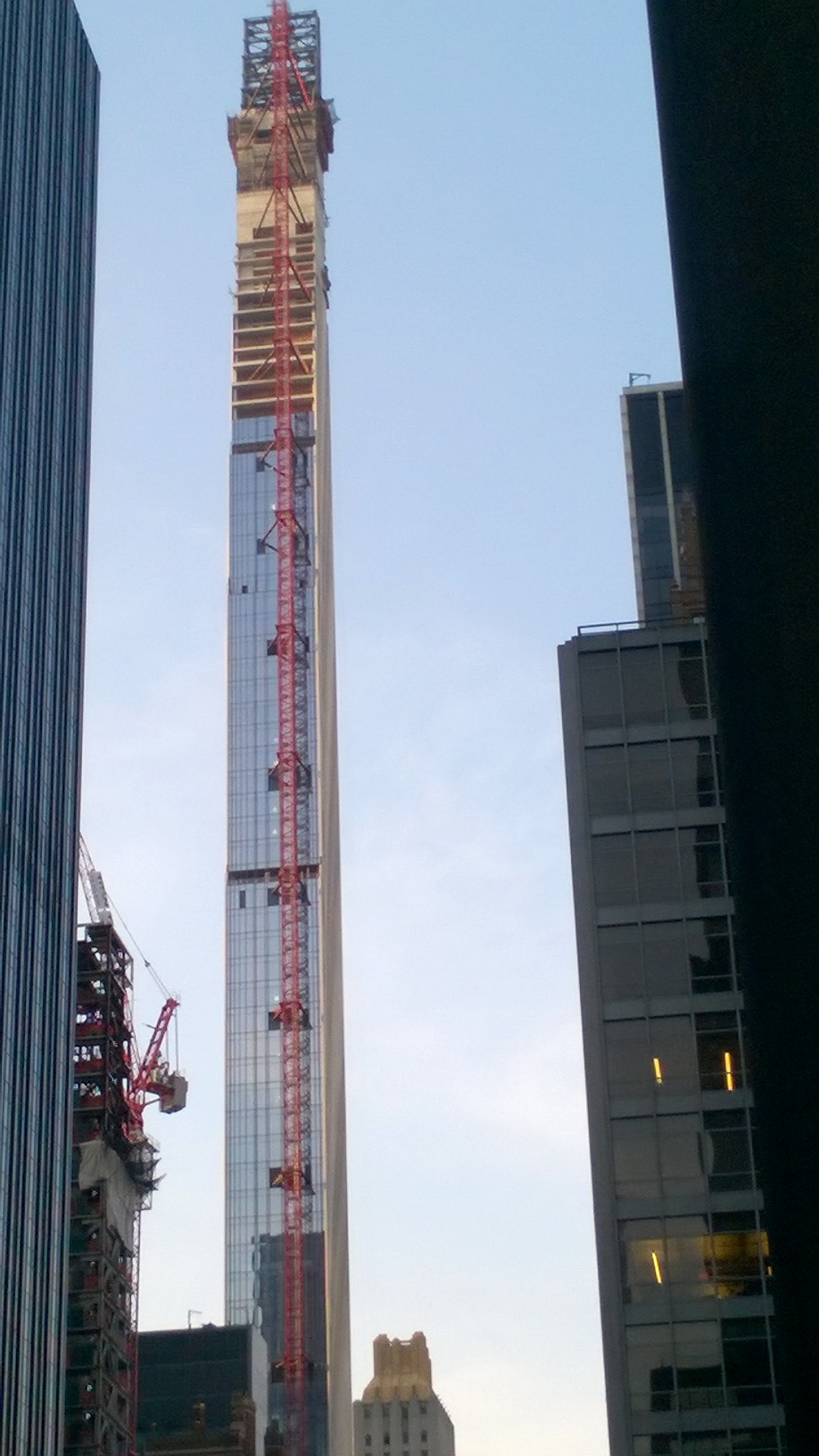 111 West 57th Street under construction, looking north from 6th Avenue in New York City on July 19, 2019.